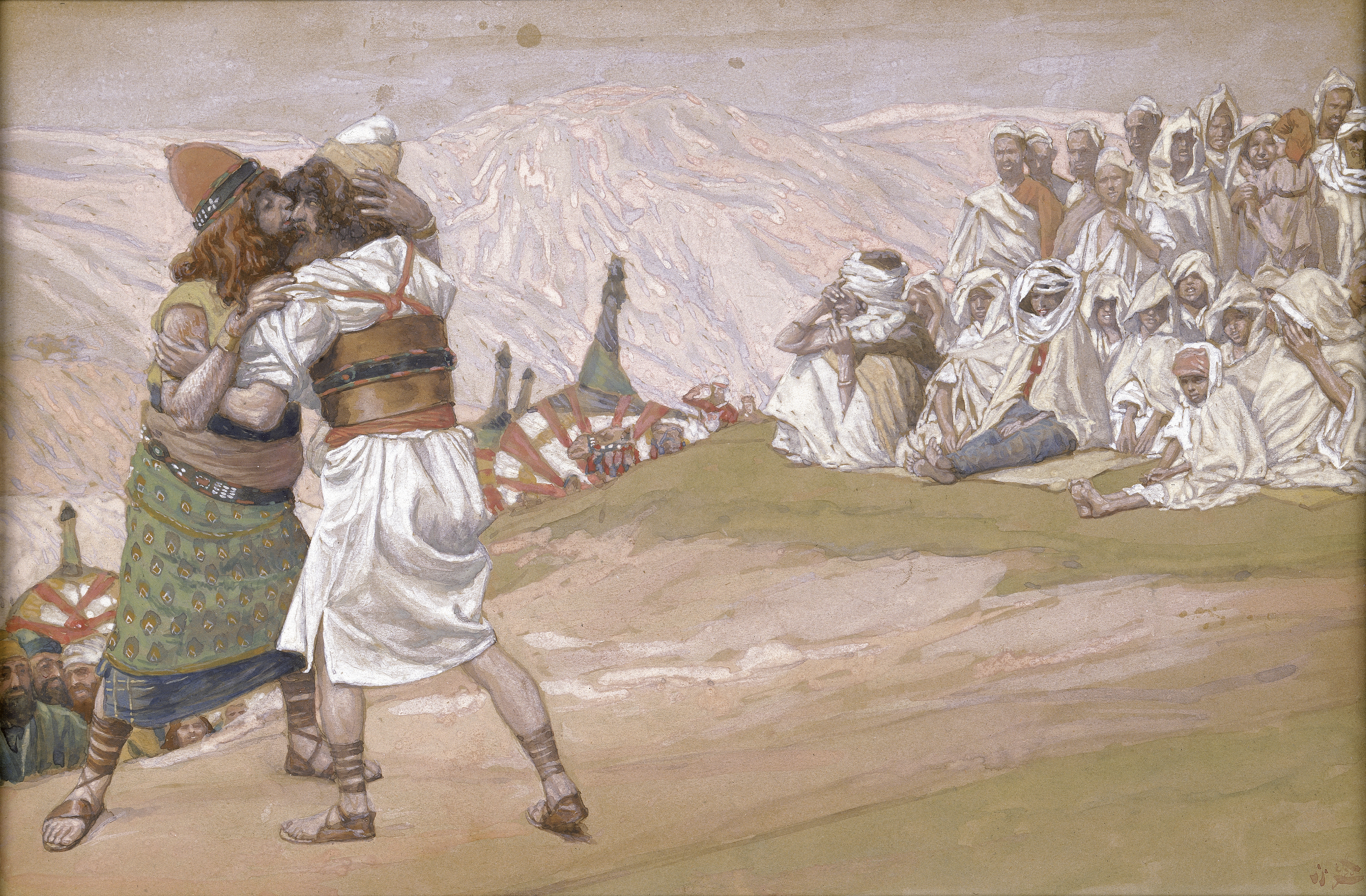 The Meeting of Esau and Jacob, c. 1896-1902, by James Jacques Joseph Tissot (French, 1836-1902), gouache on board, 7 1/16 x 10 3/4 in. (18.1 x 27.4 cm), at the Jewish Museum, New York